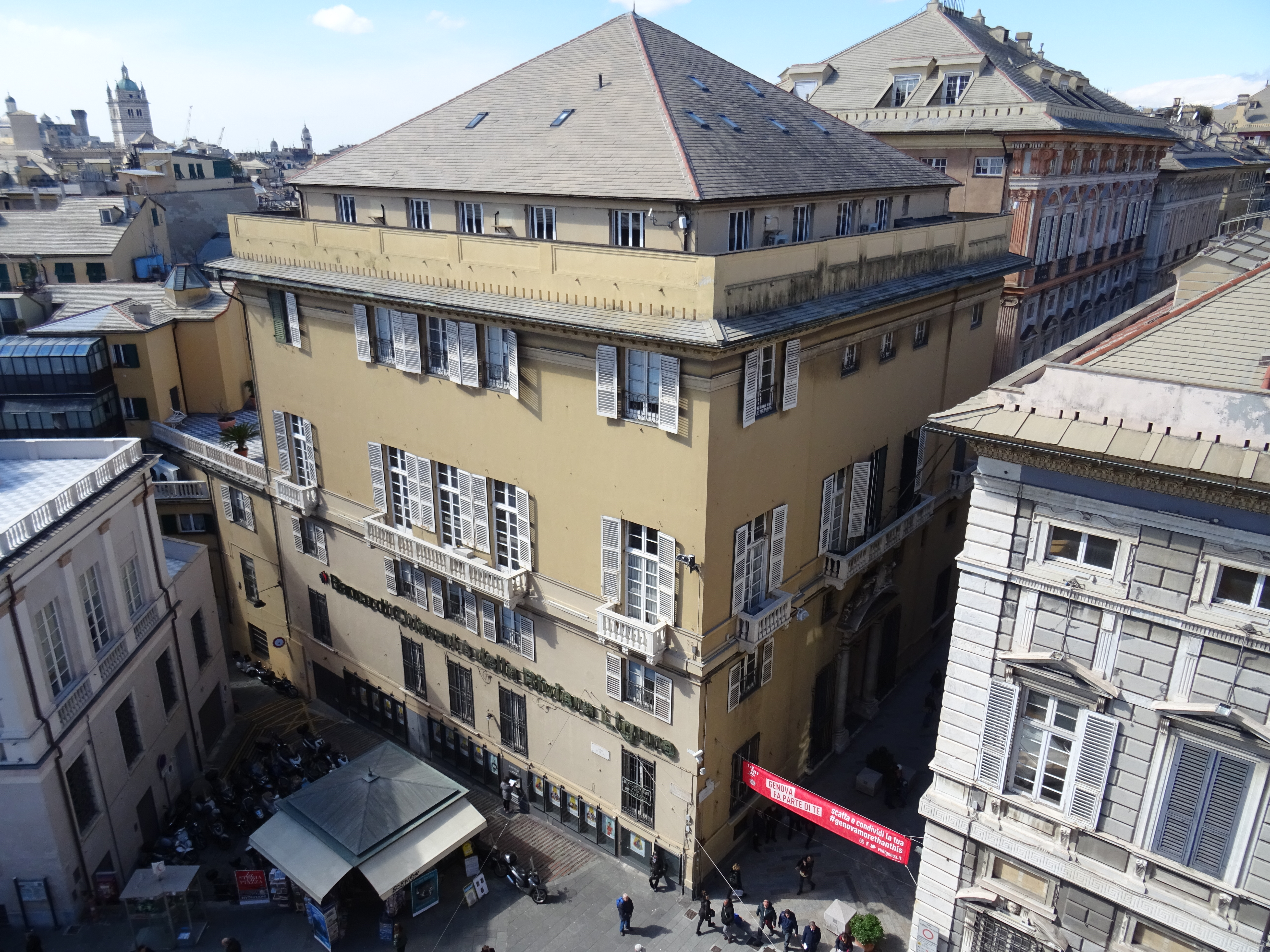 Pantaleo Spinola Palace in Via Garibaldi in Genoa